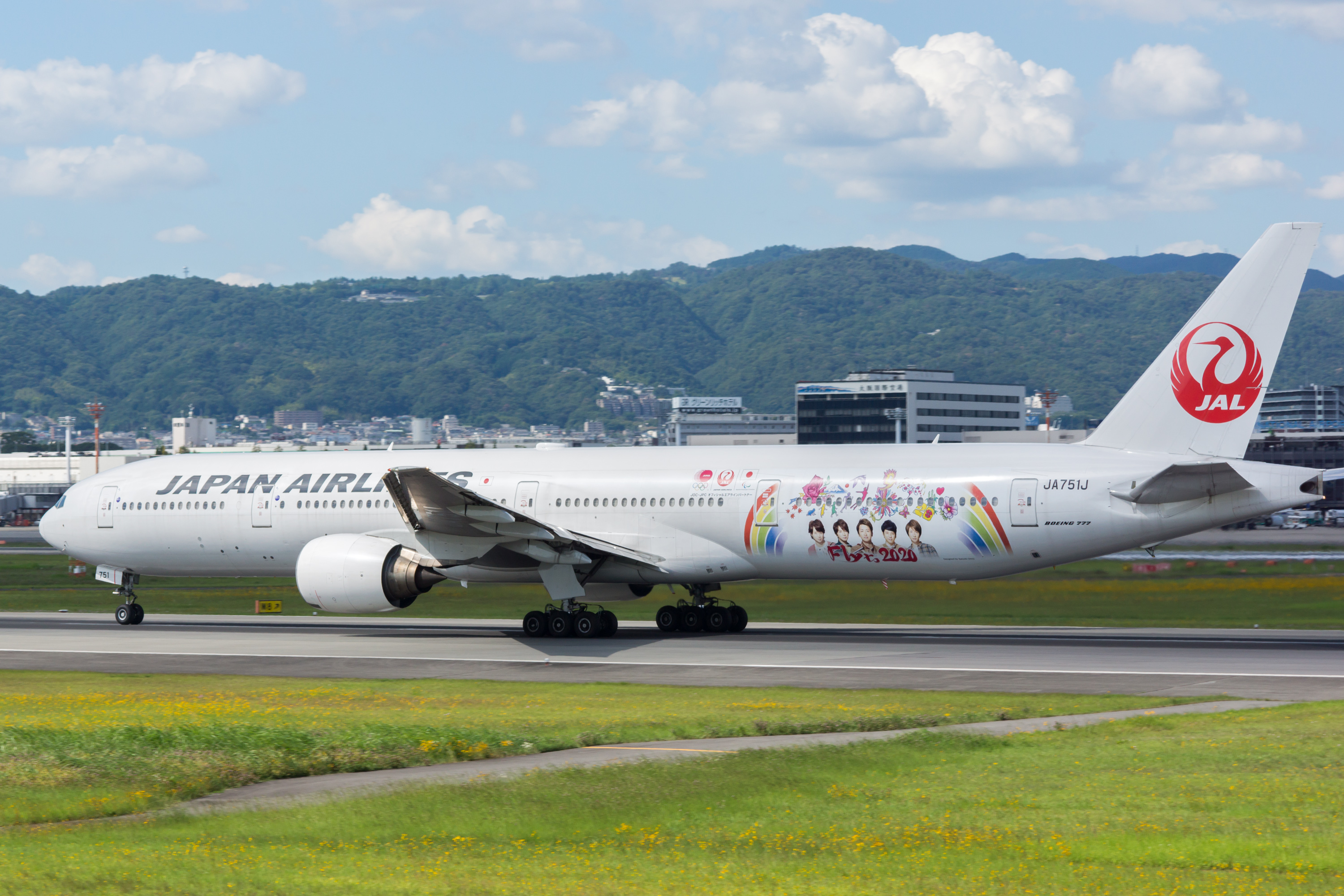 Japan Airlines / 日本航空 Boeing 777-346 JA751J Special Marking "Arashi-Jet: JAL FLY to2020 livery" JL2087, Departed to Naha Osaka Itami Int'l Airport